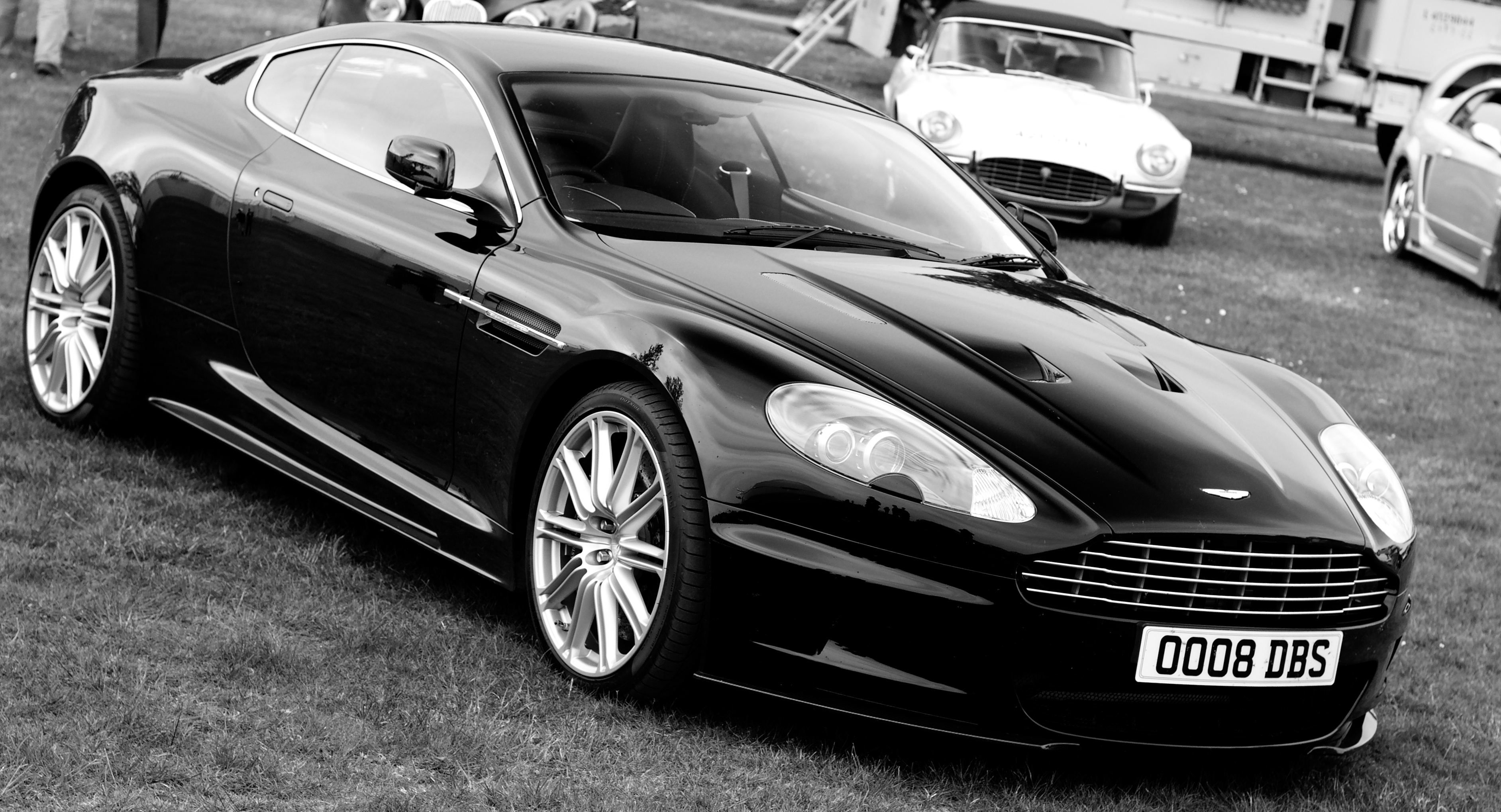 A black and white photograph of an Aston Martin DBS V12 coupé.DSC_1177_DxO_RAW